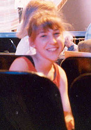 Mayim Biyalik at the rehearsal for the 1989 Academy Awards (her opening number got cut)